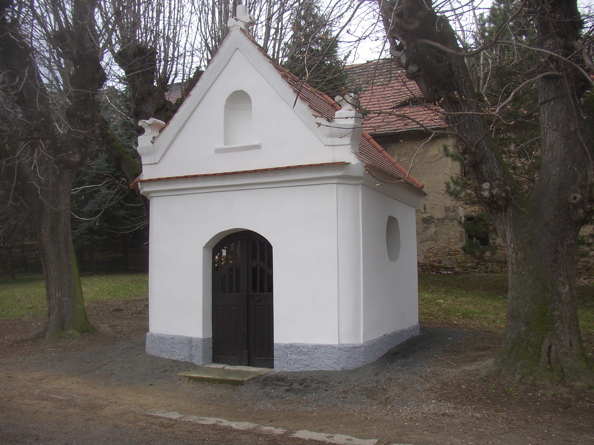 Baroque chapel in Březno, part of Velemín municipality, Litoměřice District, Czech Republic.